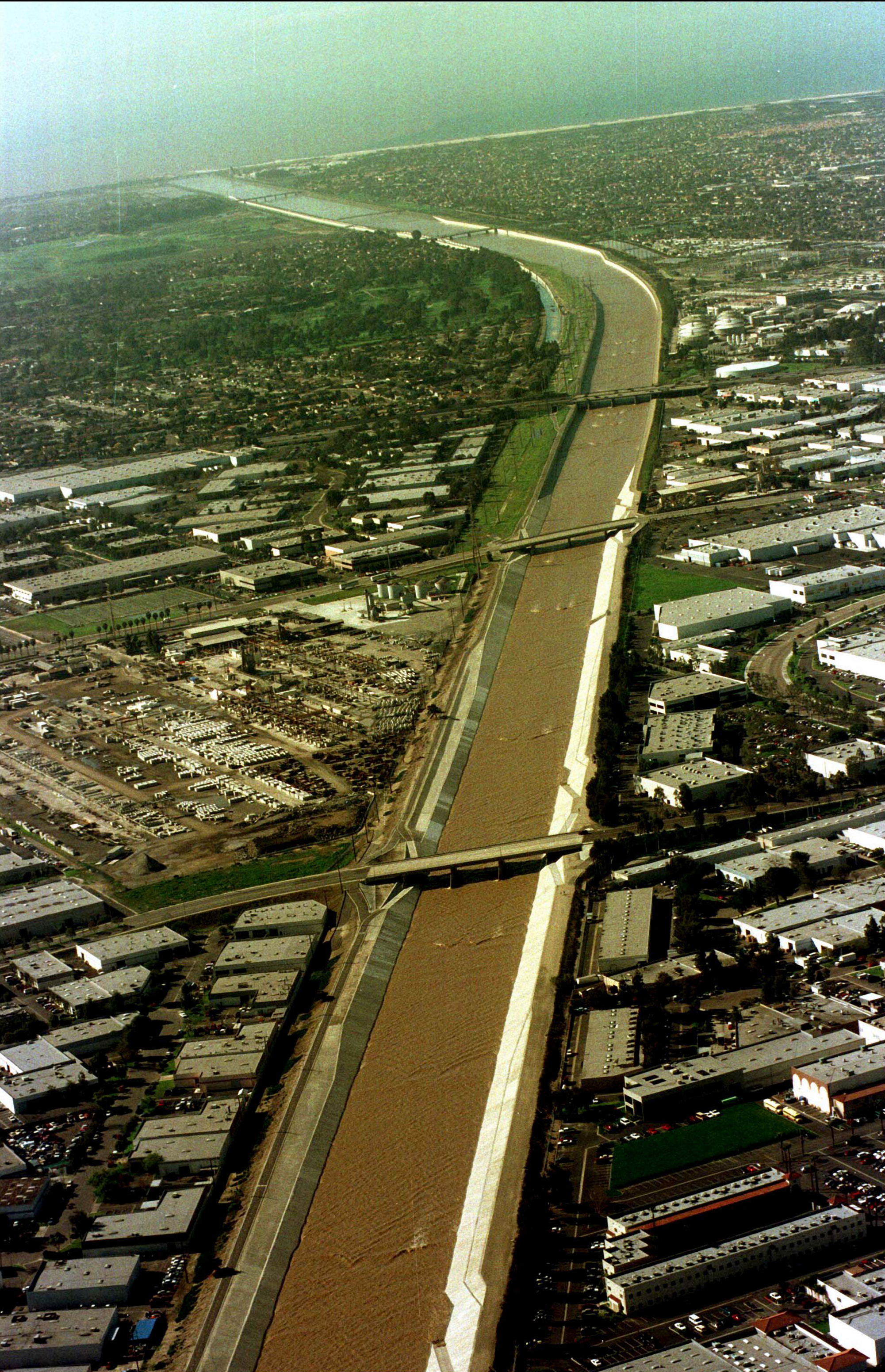 Los Angeles, CA, 02/26/1998 -- AR Zones between the Los Angeles River, Rio Hondo, and San Gabriel River will affect the businesses and homes that are built up along the flood channels. Photo by Dave Gatley/FEMA. San Gabriel River channel.